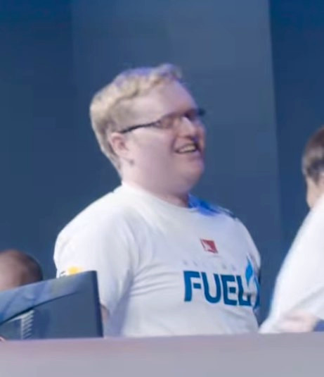 Seagull (Brandon Larned) with the Dallas Fuel